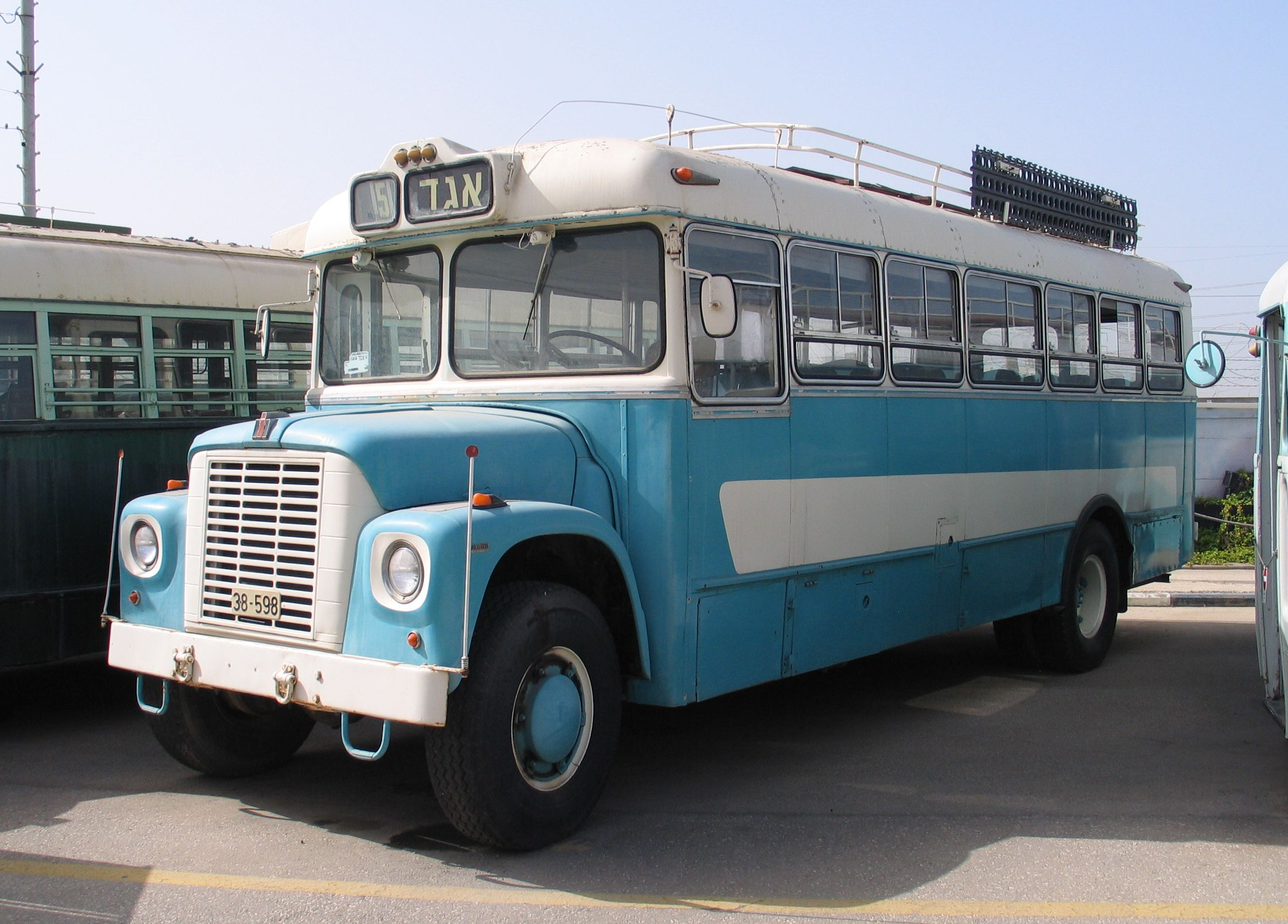 A bus (International chassis, body produced by HaArgaz, Israel) in the Egged Museum, Holon, Israel.